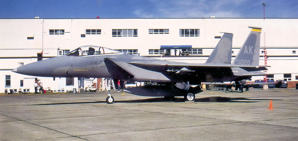 54th Tactical Fighter Squadron - McDonnell Douglas F-15C-30-MC Eagle - 81-0020